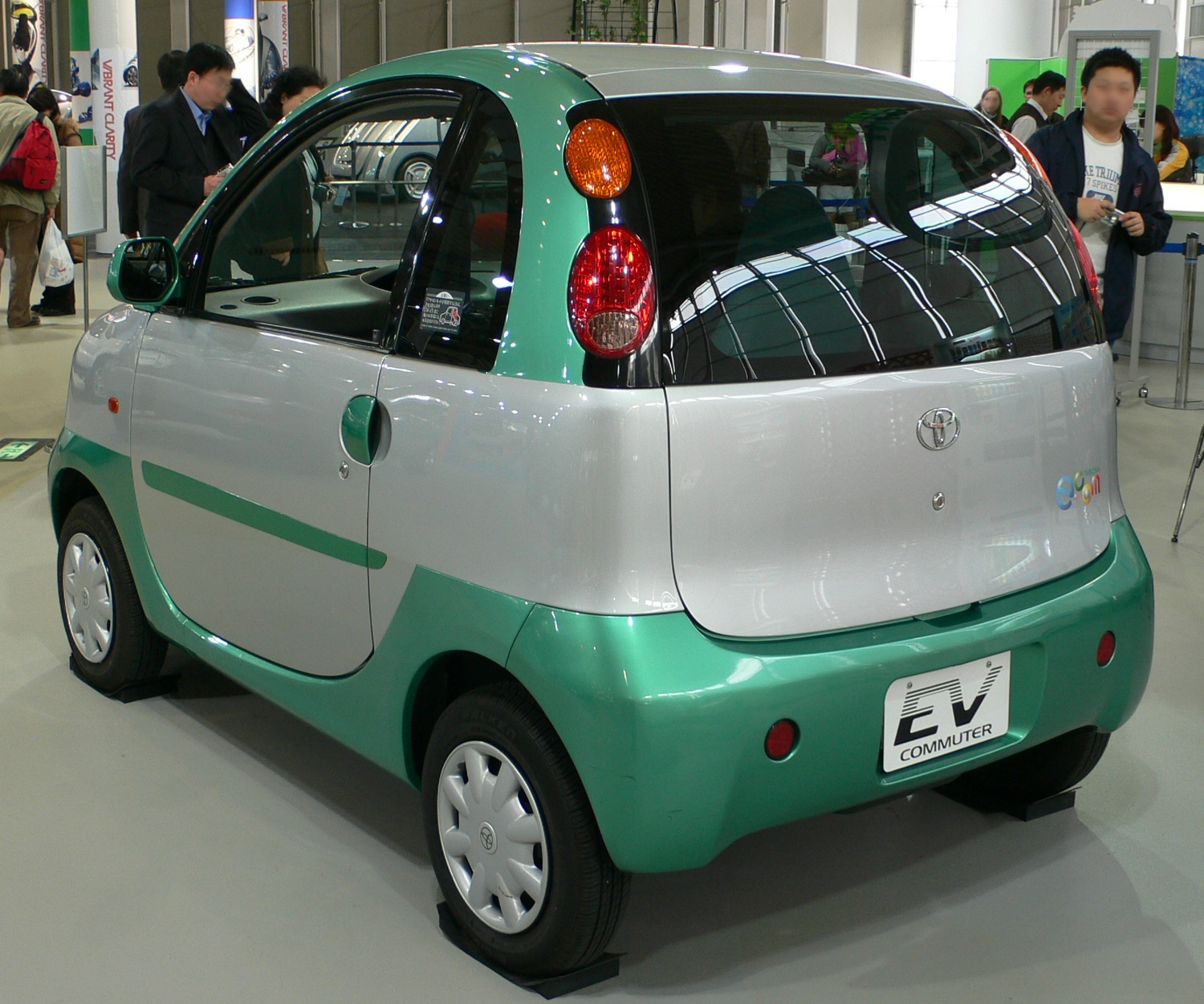 Toyota_e-com photographed in MEGAWEB.